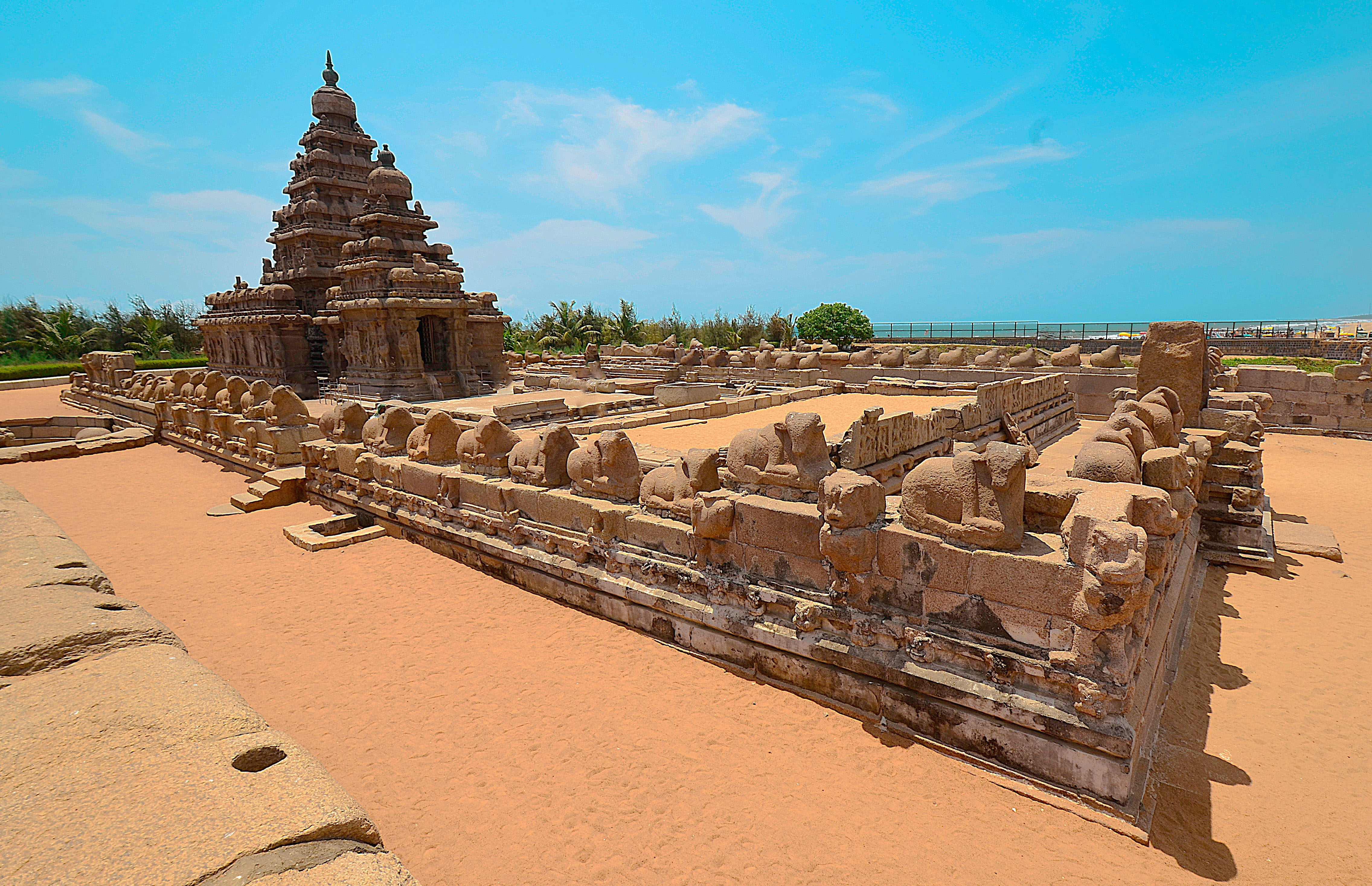 Seashore Temple, Mahabalipuram